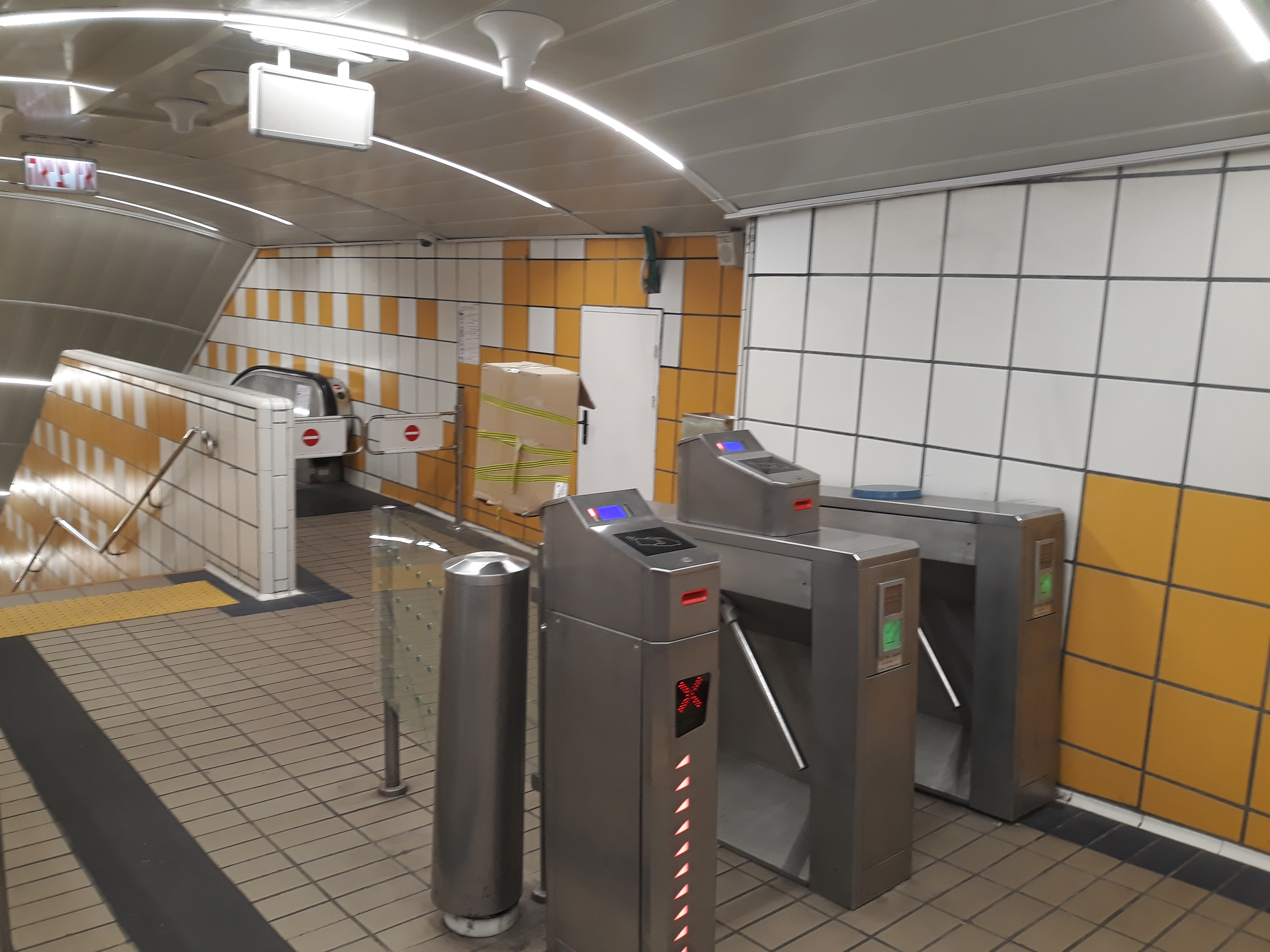 Carmelit subway in Haifa after its reopening in 2018